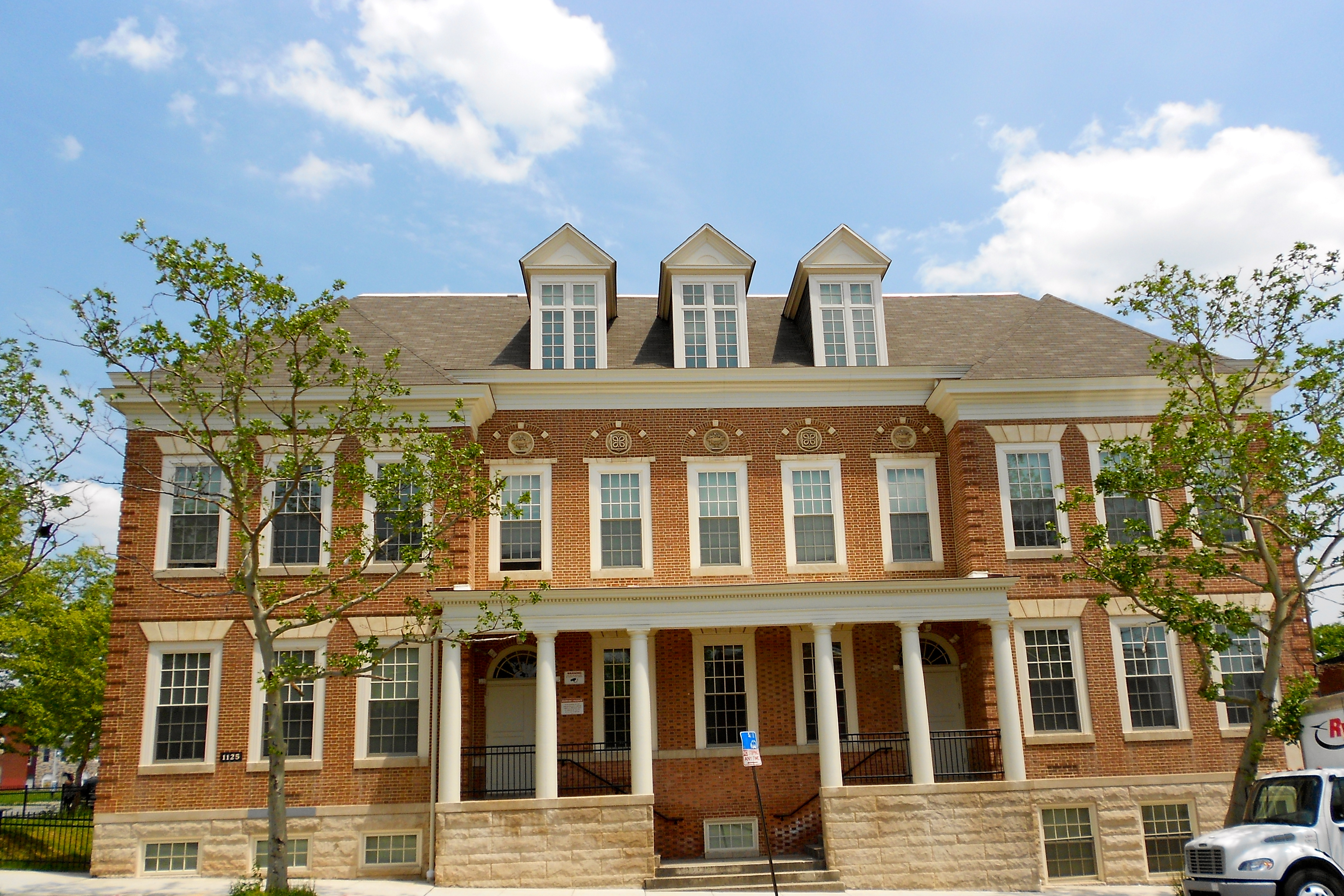 Public School No. 37 on the NRHP since September 25, 1979. At E. Biddle St. and N. Patterson Park Ave., in Baltimore, Maryland